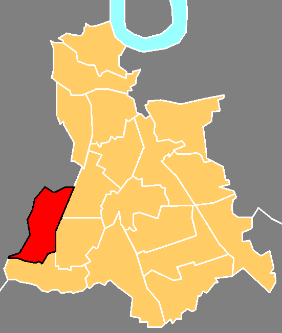 The electoral ward of Forest Hill (red) within the London Borough of Lewisham (orange).